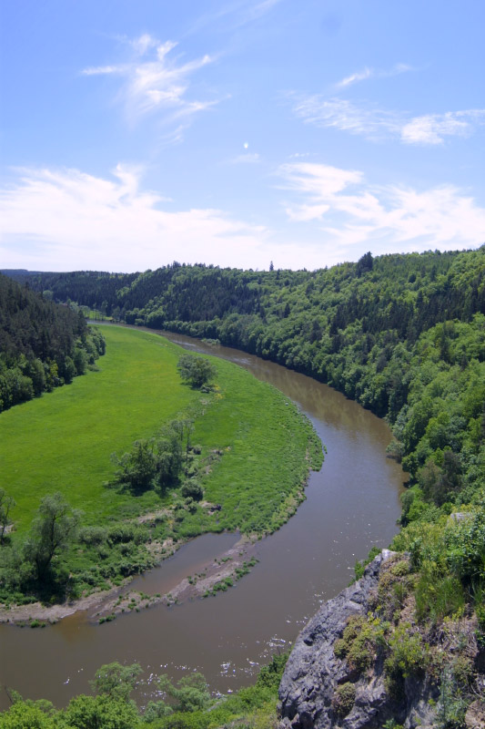 A bend of the Berounka River under Krašov Castle, Czech Republic.